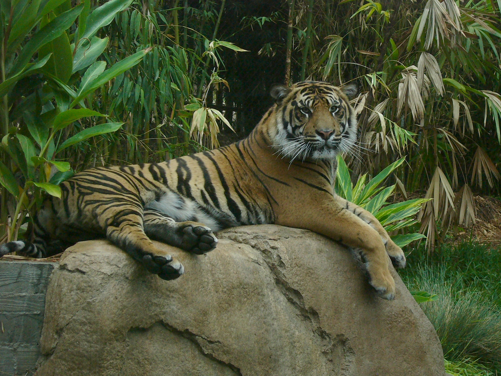 Tiger in "Tiger Trails" exhibit at San Diego Zoo Safari Park, California.